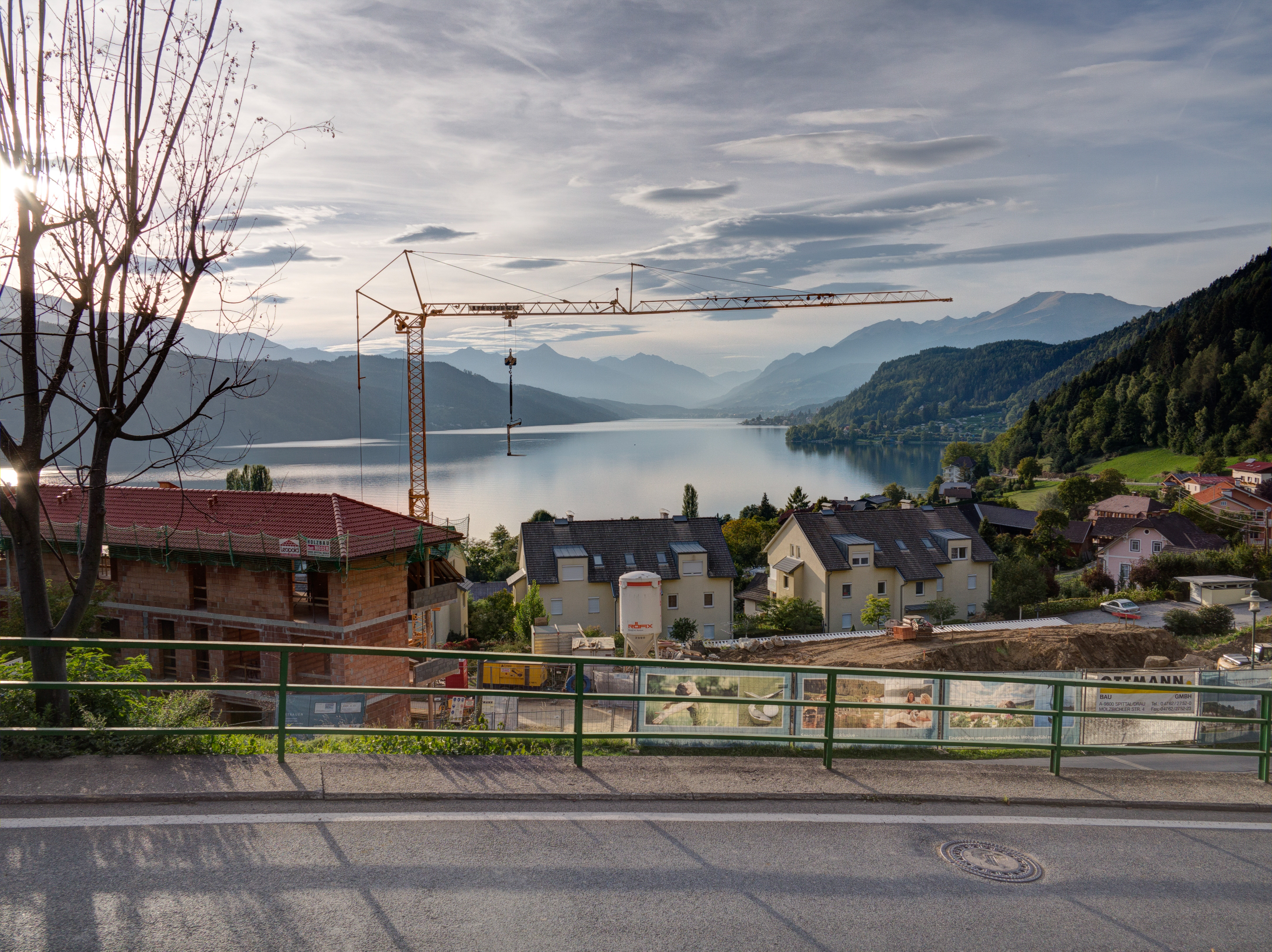 Construction of place where until 2013 the old inn "Gasthaus Brugger" stand. Near the main road B98 Lake Millstatt in Carinthia / Austria / EU.